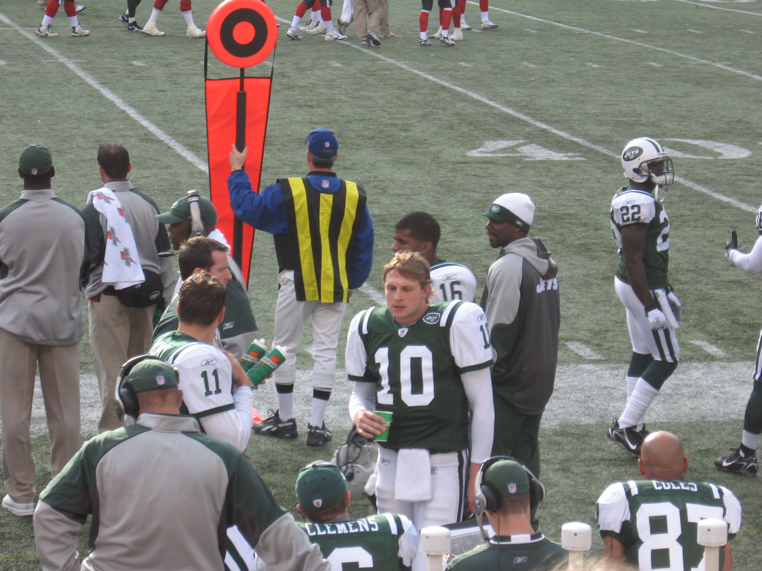 taken by me on November 26, 2006- Texans vs. Jets